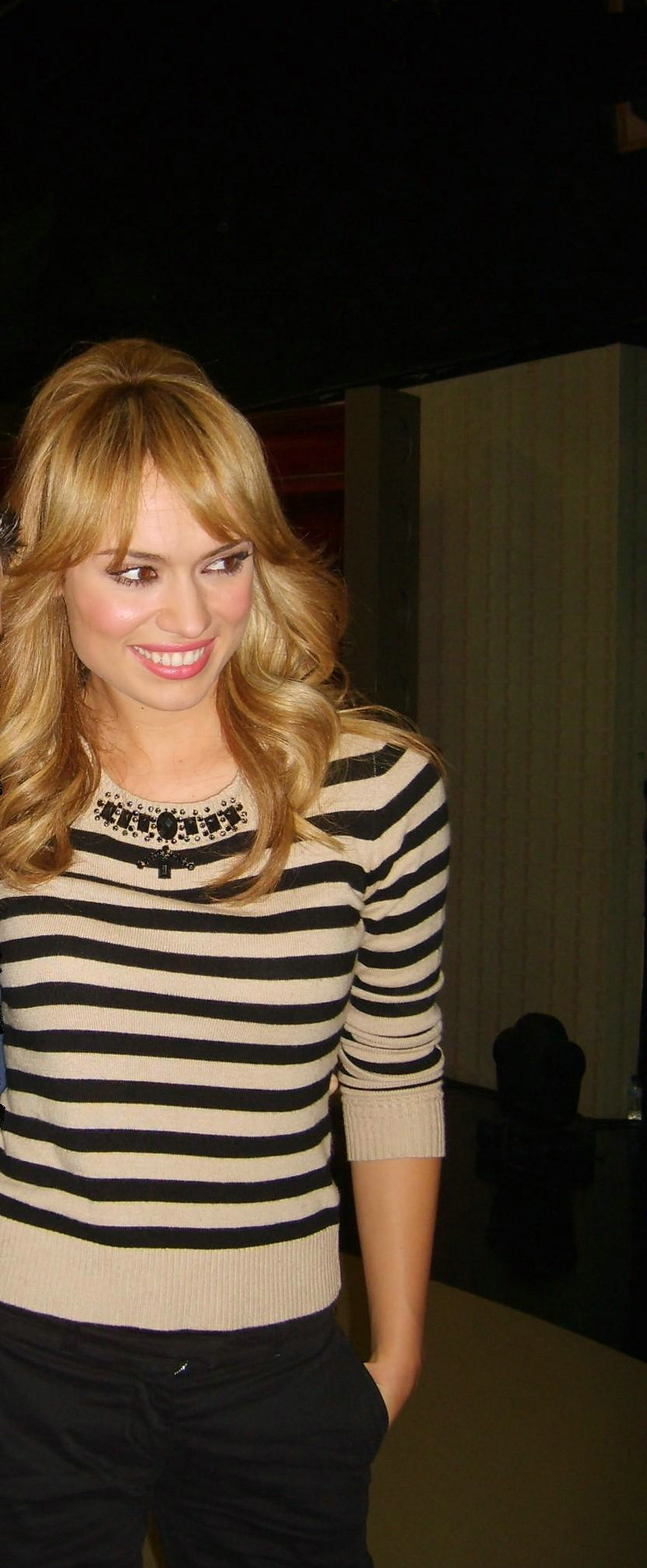 Spanish TV presenter Patricia Conde